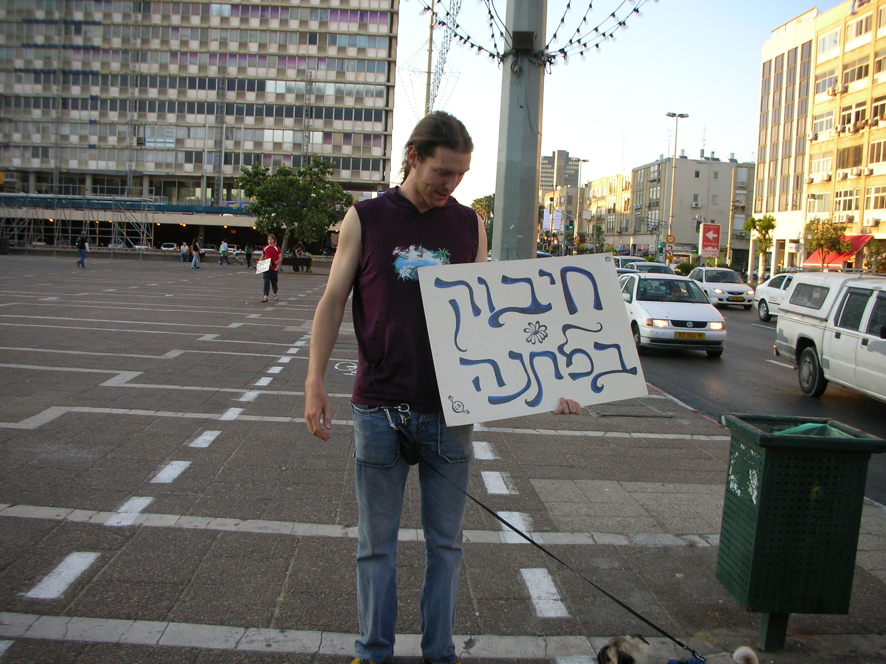 A 'FREE HUGS', volunteer, with a Hebrew sign.